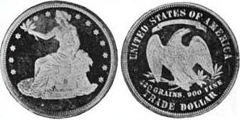 Photograph of an 1876 trade dollar pattern